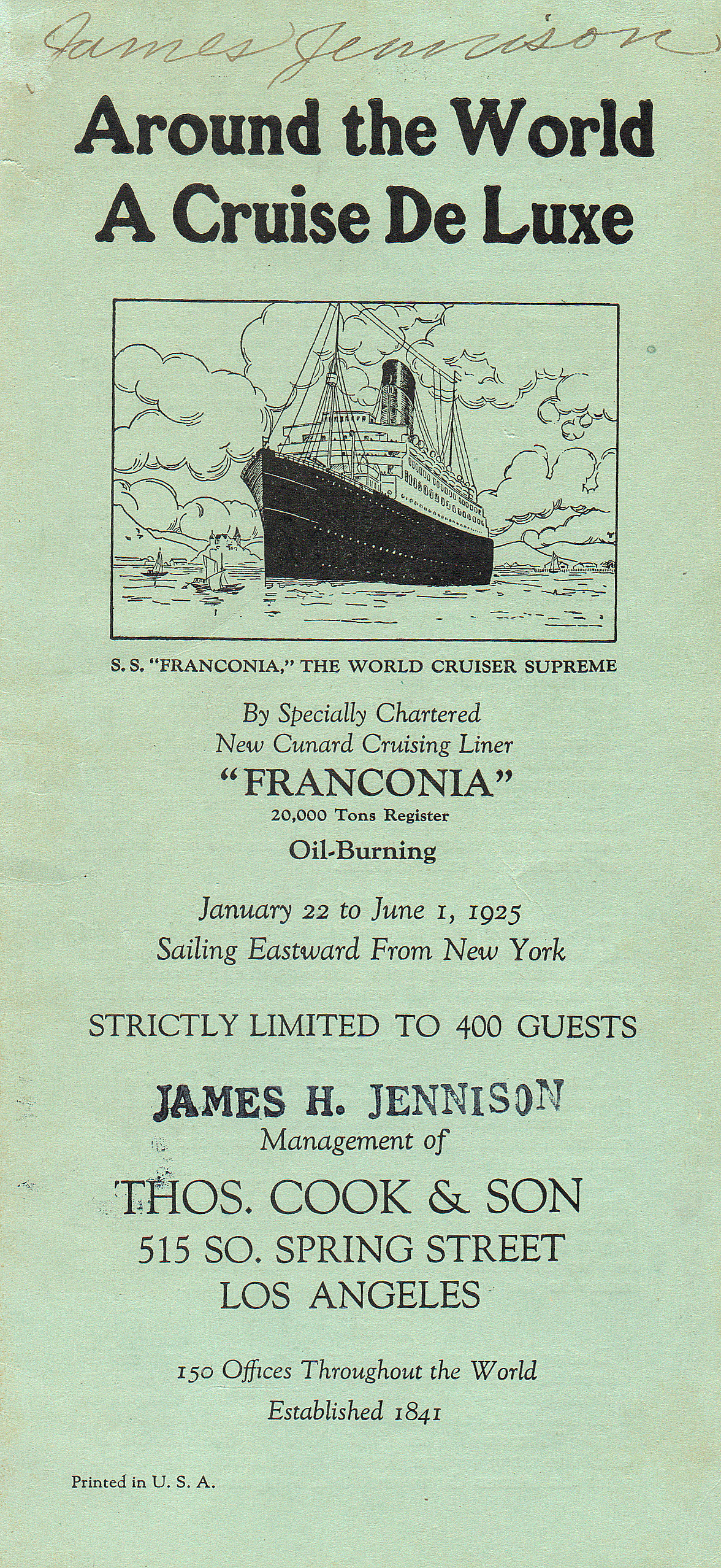 RMS "Franconia" World Cruise brochure January 22-June 1, 1925